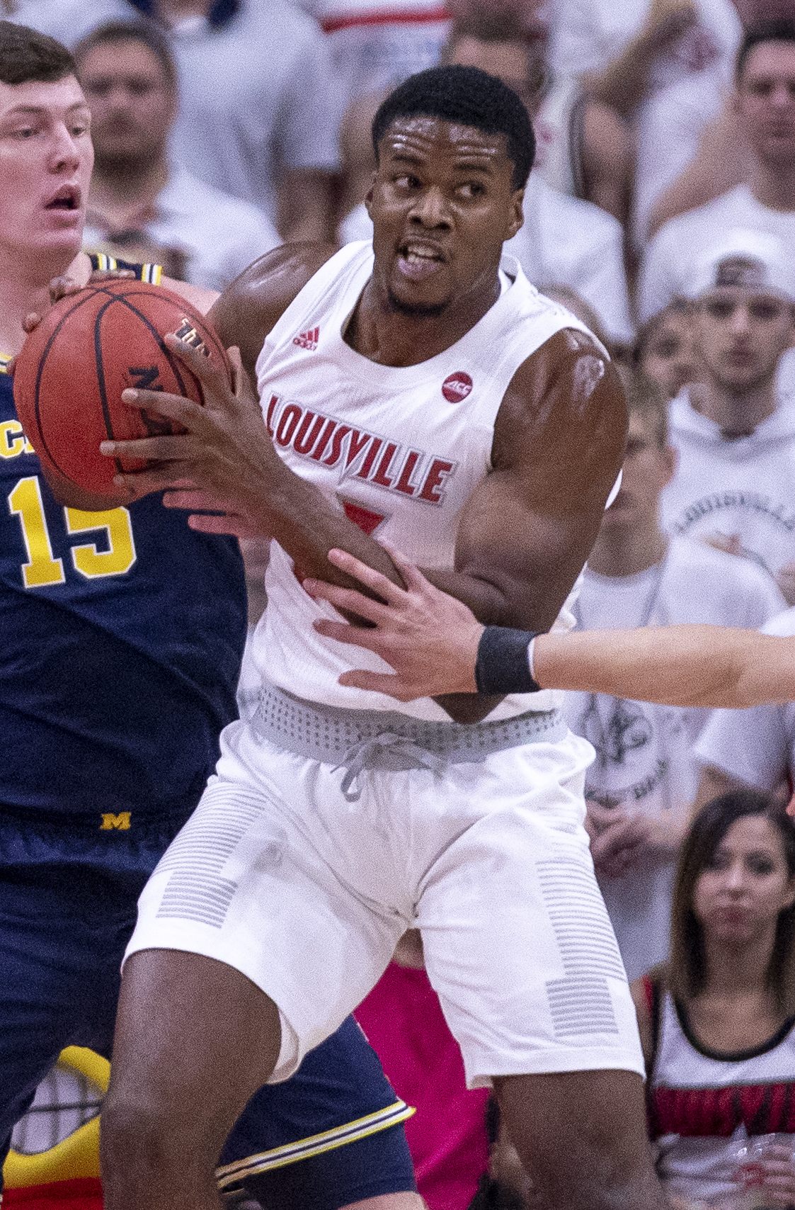 Steven Enoch Jon Teske